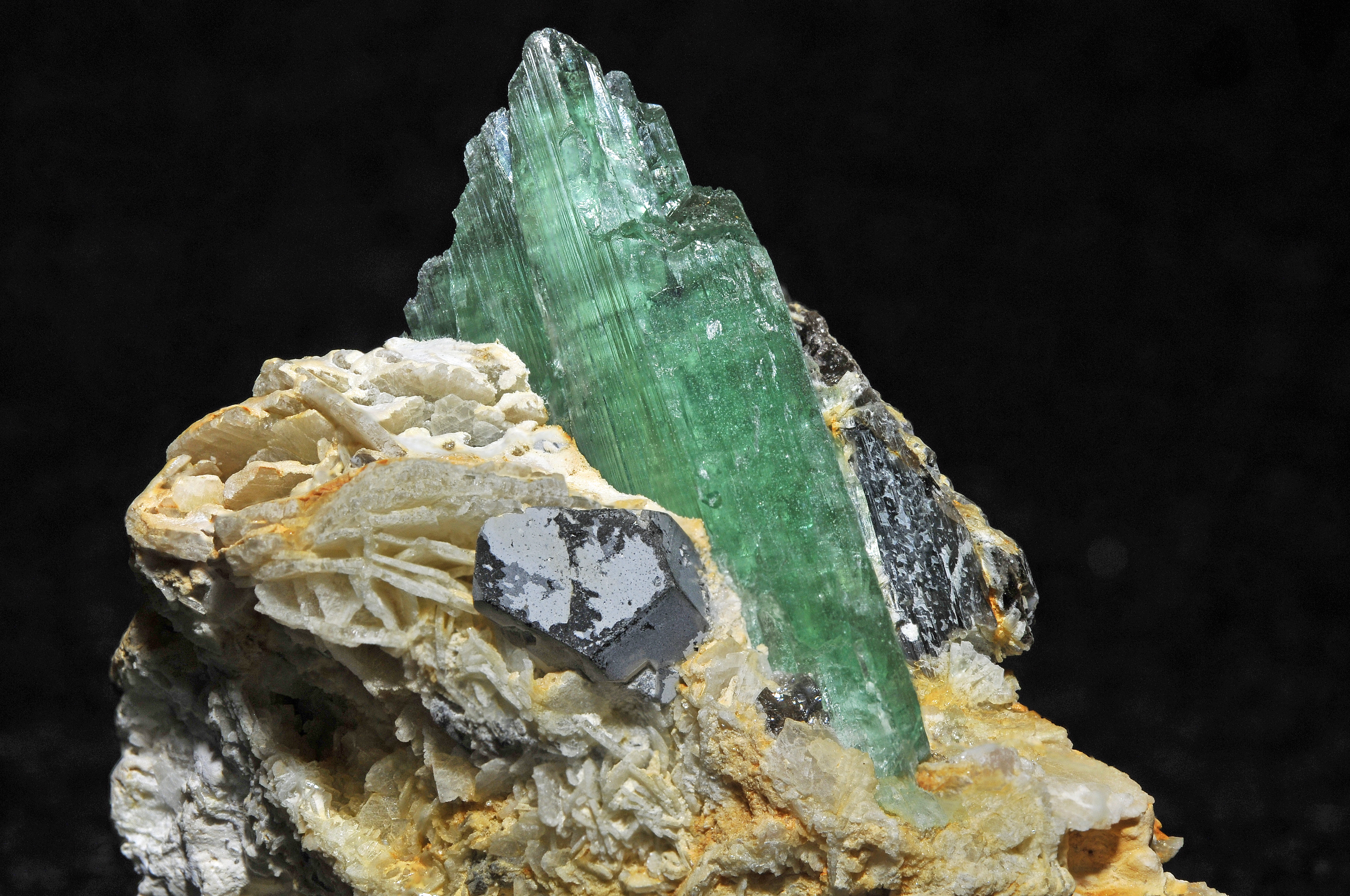 crystals of spodumene var. hiddenite, crystals of albite var. cleavelandite, crystals of smoky quartz : Paprok Mine (Papruk Mine ; Paprowk Mine), Kamdesh District, Nuristan Province (Nurestan Province ; Nooristan Province ; Nuristan), Afghanistan